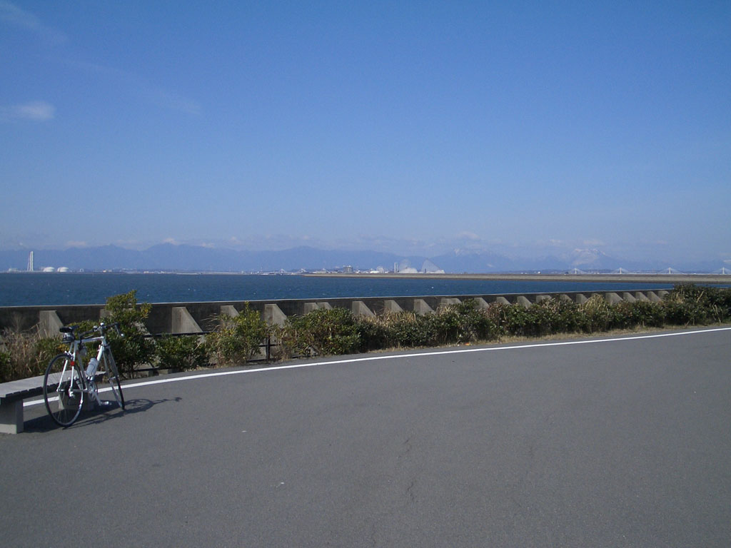 Nagoya Port Bikeway (Yatomi, Aichi)